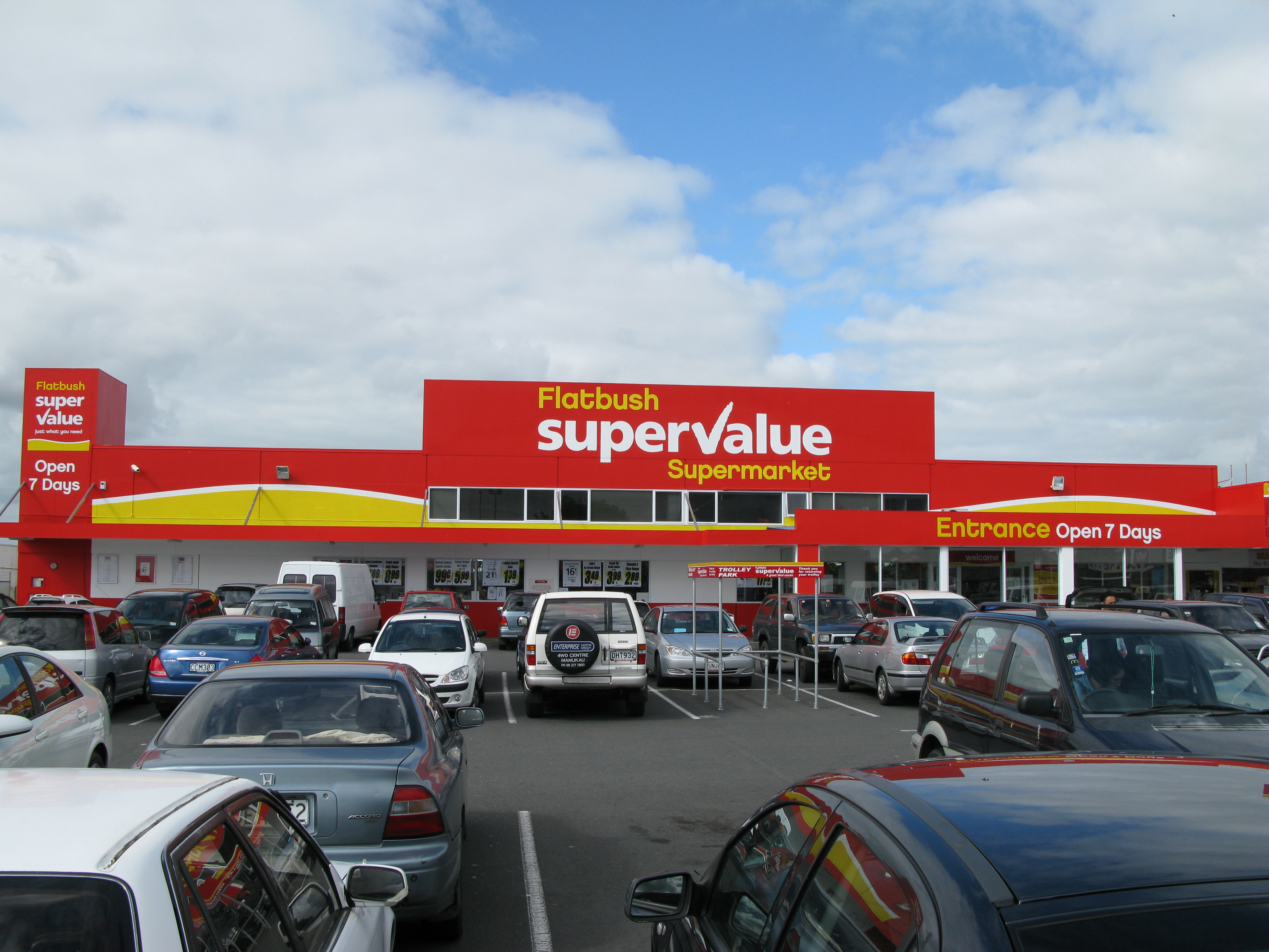 Top SuperValue store, new look after major refurbishment in 2008-2009.